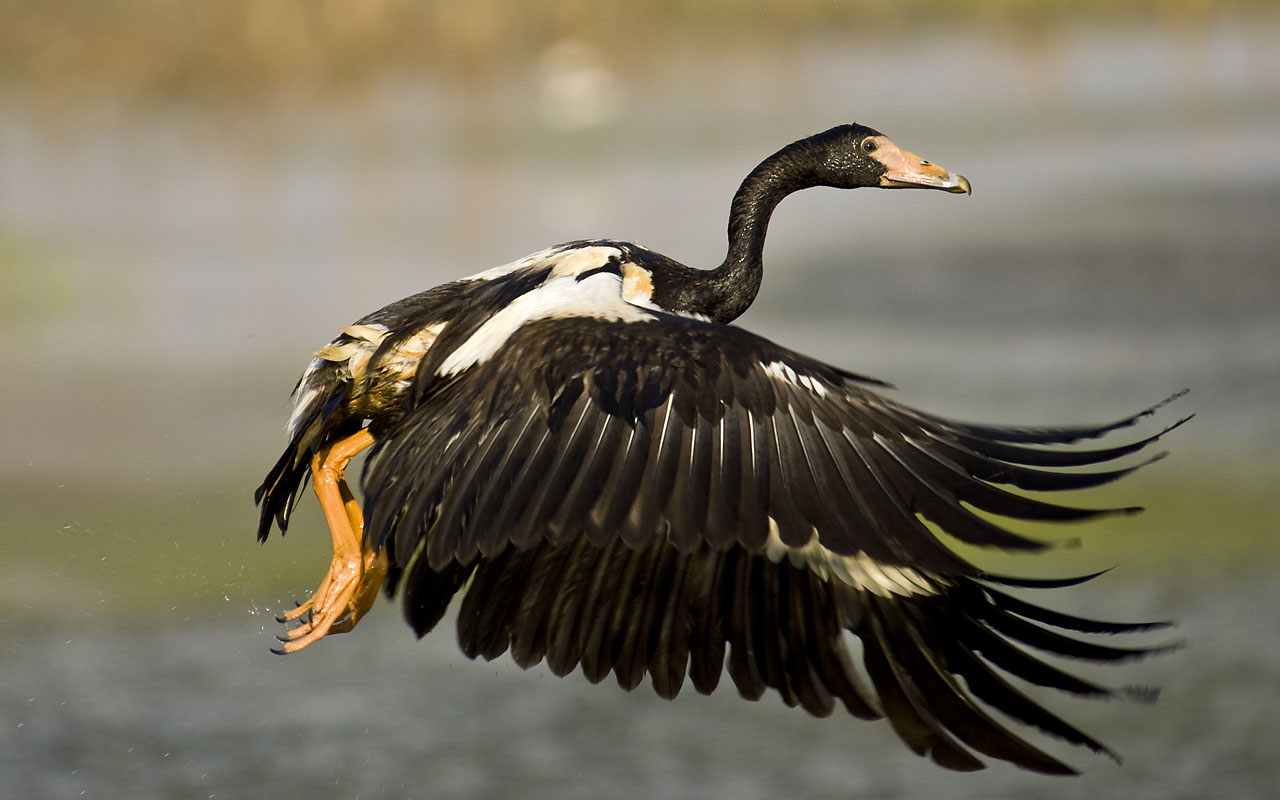 Magpie Goose taking off, Fogg Dam, Northern Territory, Australia